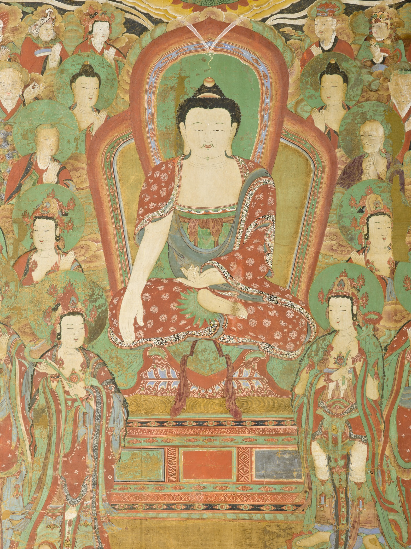 Korea, Korean, Joseon dynasty (1392-1910), dated 1755 Paintings Unmounted, ink and color on silk Image (approximately): 132 x 160 in. (335.28 x 406.4 cm) Far Eastern Art Acquisition Fund (AC1998.268.1) Korean Art